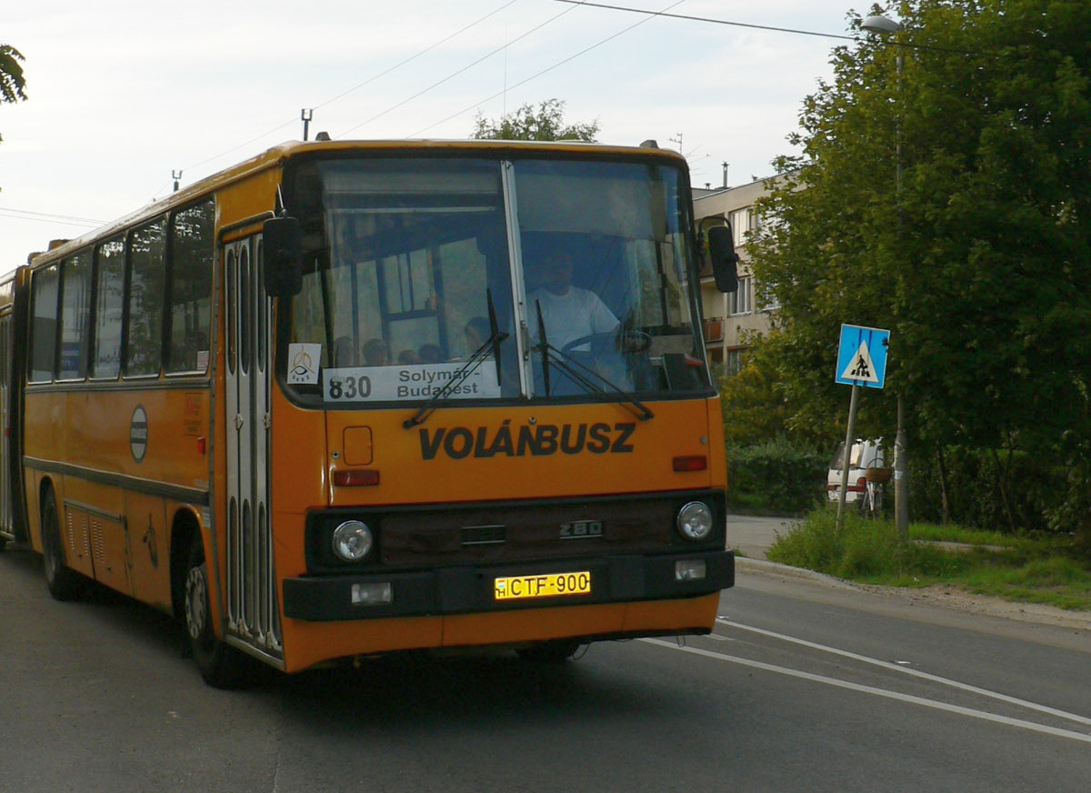 A 830-as Volánbusz-járat egy csuklós busza Solymáron